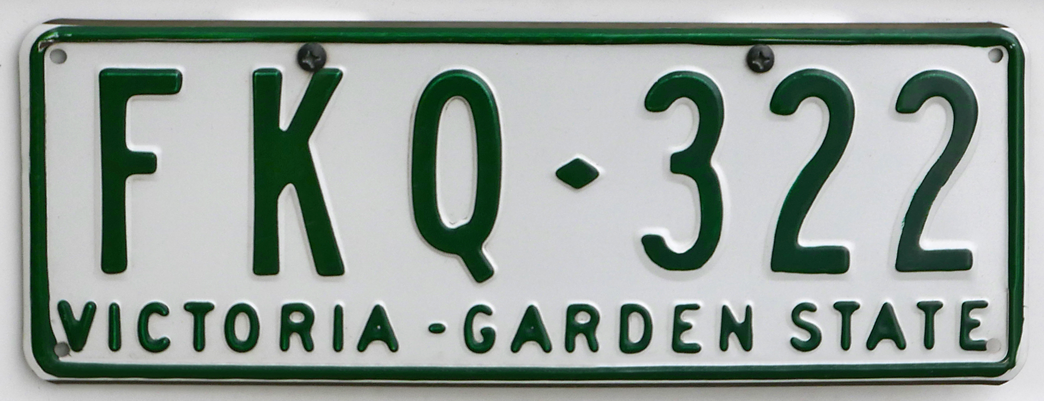 General issue vehicle registration plate of Victoria, Australia. This particular registration plate has the combination FKQ-322, from late 1993 as per VicRoads [1]. This plate is of standard size and incorporates the slogan "Victoria – Garden State" as issued from November 1977 starting at c. AAA-000. Photographed in Northcote, Victoria, Australia. Vehicle registration enquiry results Jurisdiction Victoria Registration FKQ322 Chassis code 6T154AZ9209746234 Engine code 4A9133527 Compliance date 1991-12 Year of manufacture 1991